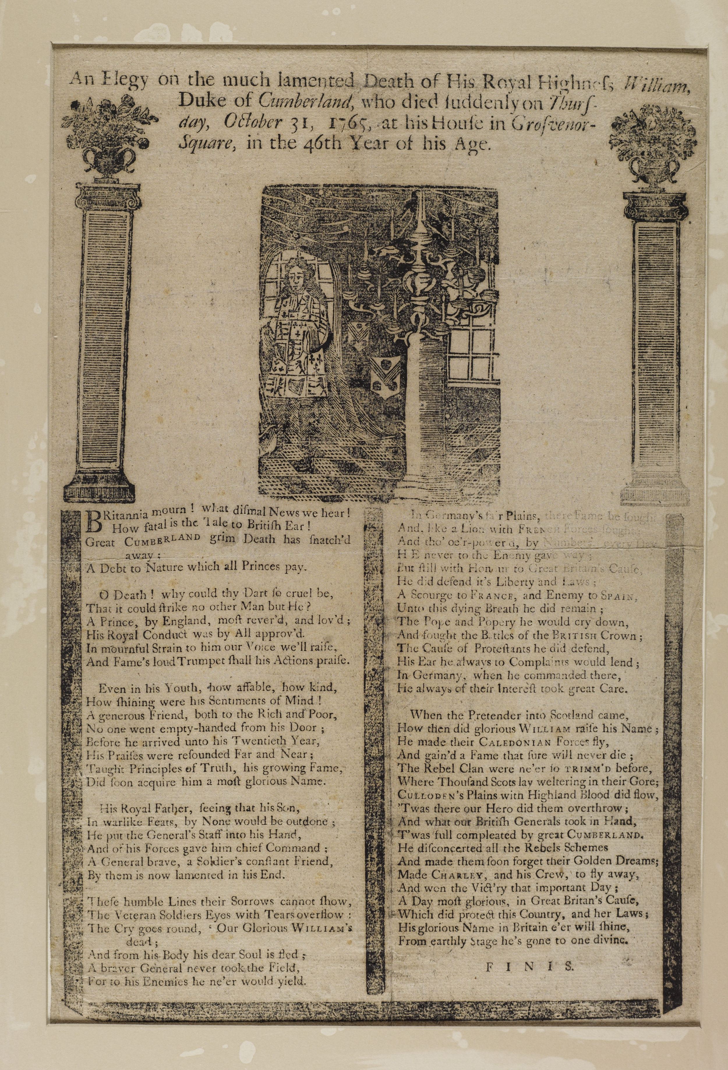 Broadside with woodcut and two columns of poetry reporting the death of Cumberland.